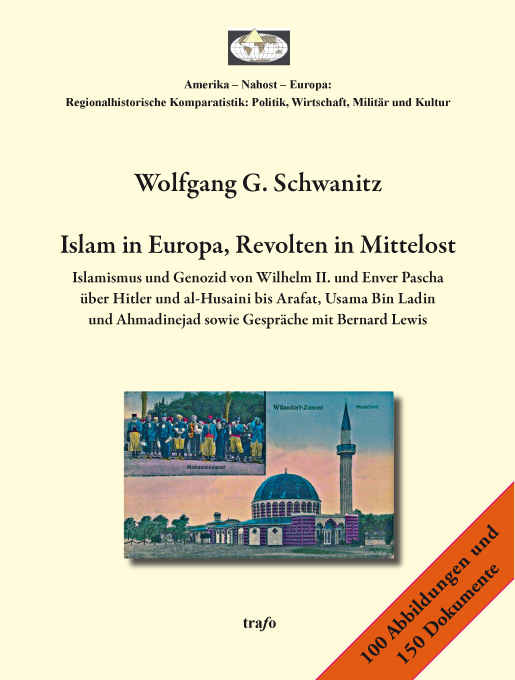 Book cover of "Islam in Europe, Revolts in the Middle East. Islamism and Genocide from Wilhelm II and Enver Pasha via Hitler and al-Husaini to Arafat, Usama Bin Ladin and Ahmadinejad and talks with Bernard Lewis" (Berlin: Trafo Publisher Dr. Wolfgang Weist 2013, German) with global pyramid logo connecting three continents of Wolfgang G. Schwanitz' book series "America--Middle East--Europe," vol. 2. The book series logo was created by Wolfgang Weist according to a suggestion by Wolfgang G. Schwanitz. The front cover shows a 1916 postcard by the publisher Wilhelm Puder of the wooden mosque in the so called half moon camp for Muslim prisoners in World War One. The mosque at Wünsdorf-Zossen near Berlin was inaugurated on July 13, 1915, open for service until 1924 and deconstructed in 1925 for building safety issues.